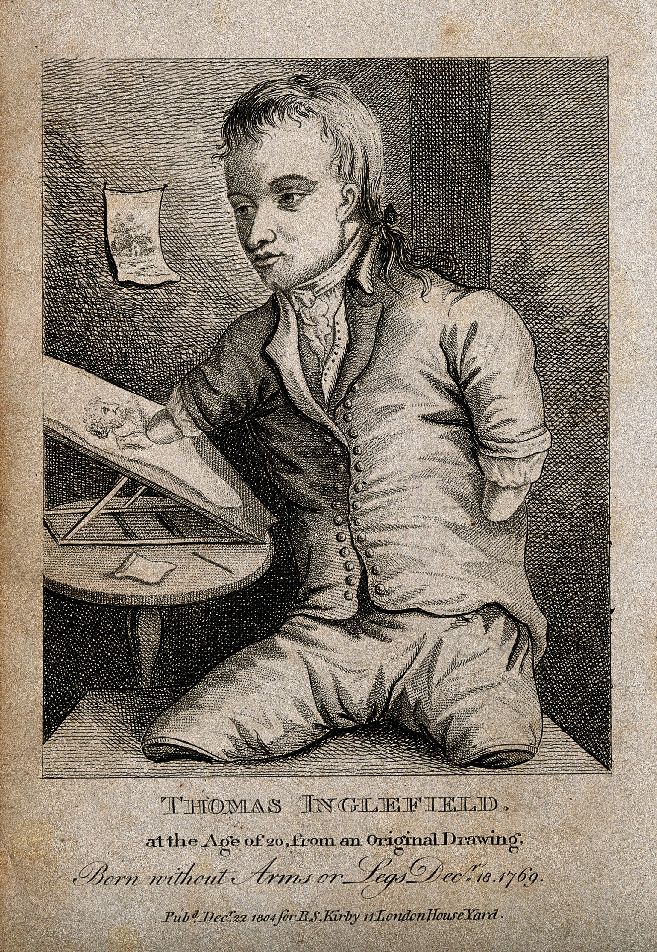 Thomas Inglefield, an artist born without limbs, aged twenty. E, 1804. Iconographic Collections Keywords: engravings; portrait prints; Thomas Inglefield; birth defects; inglefield, thomas, b. 1769; phocomelus